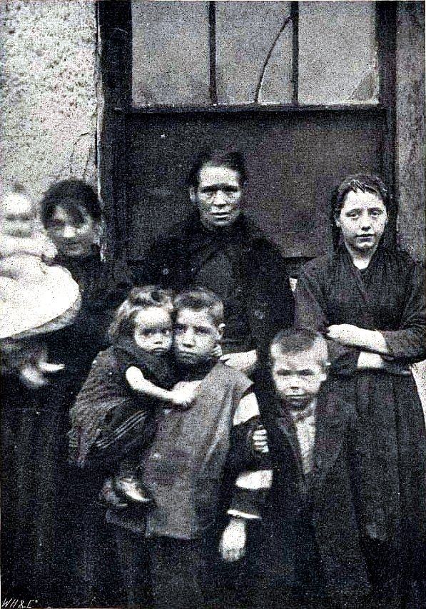 Black and white illustration of Dublin Slum dwellers in article entitled The Last of an Historic Dublin Slum written by Mary Costello, photograph by Mrs. Charles O'Connor in The Lady of the House magazine, Volume XII, Number 143, Christmas, 1901, page 10.